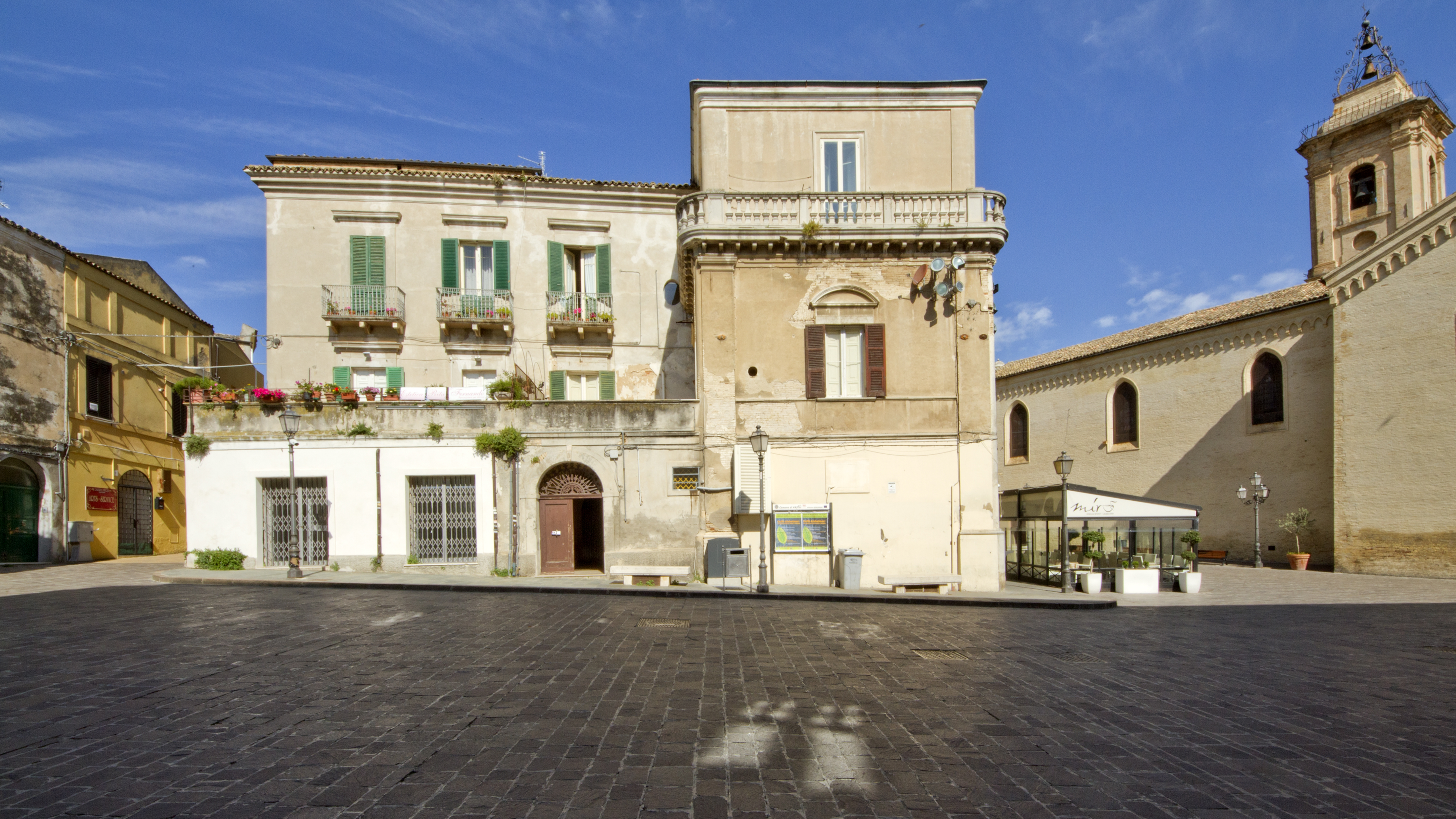 66054 Vasto, Province of Chieti, Italy